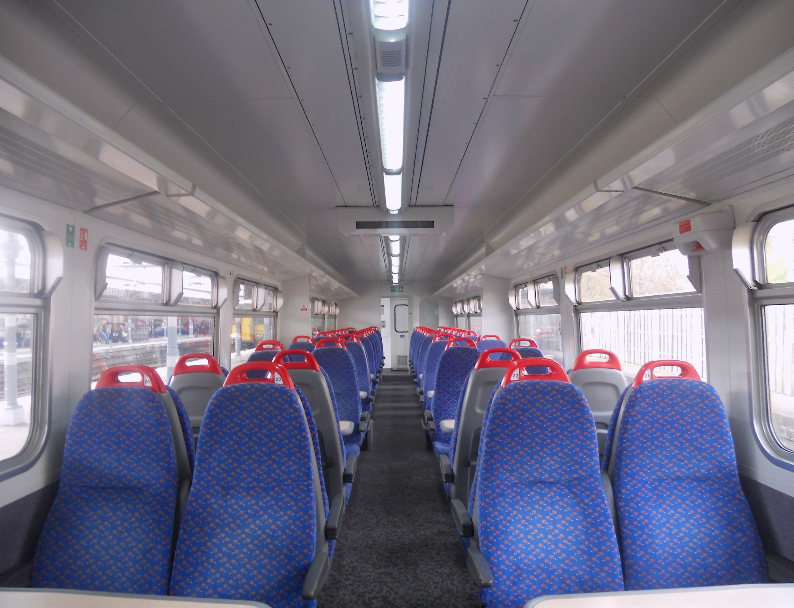 The interior of a Greater Anglia refurbished Class 156